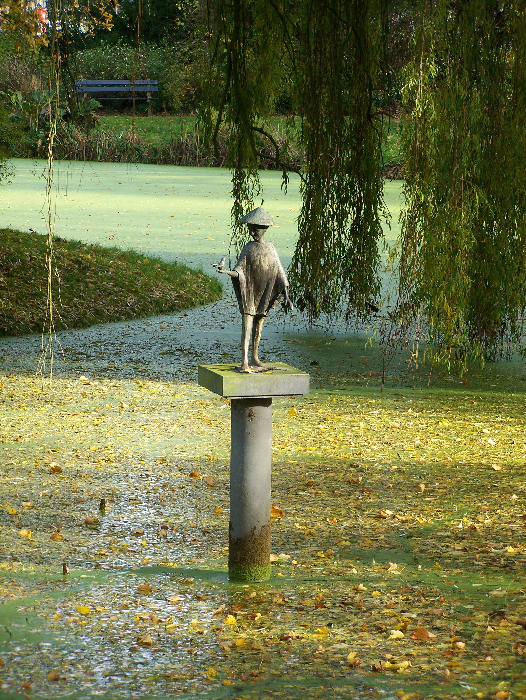 Sculpture "Jongen met vogeltje" (Boy with a bird) made by Maria van Everdingen in 1965, placed at the Rengerspark in Leeuwarden.